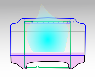 Pepsi can stove preheat 1 Illustrated with Sodipodi for Windows source:me Duk 19:33, 2 Nov 2004 (UTC)